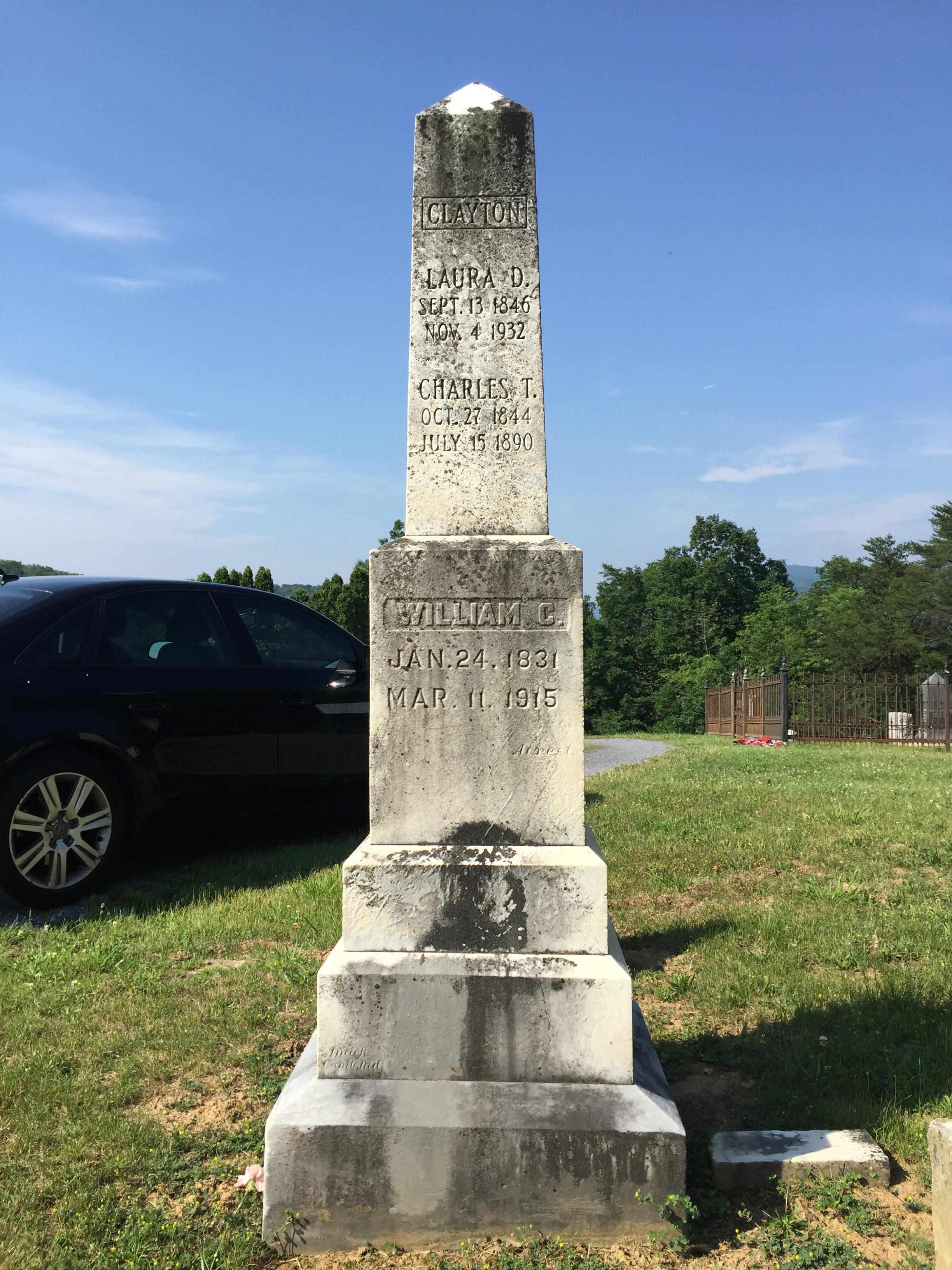 Detail of the gravestone of William C. Clayton, Charles T. Clayton, and Laura D. Clayton in Indian Mound Cemetery in Romney, West Virginia, United States. Photographed by Quercus montana on June 8, 2015.